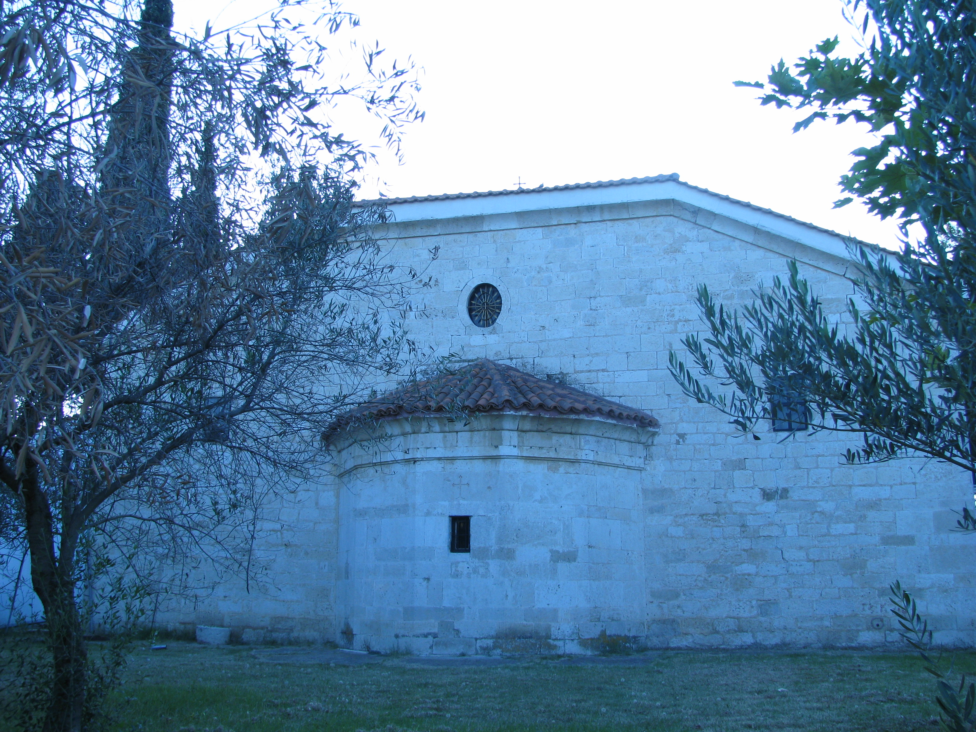 Church of Kufalia/Kufalovo, Aegean Macedonia, Greece